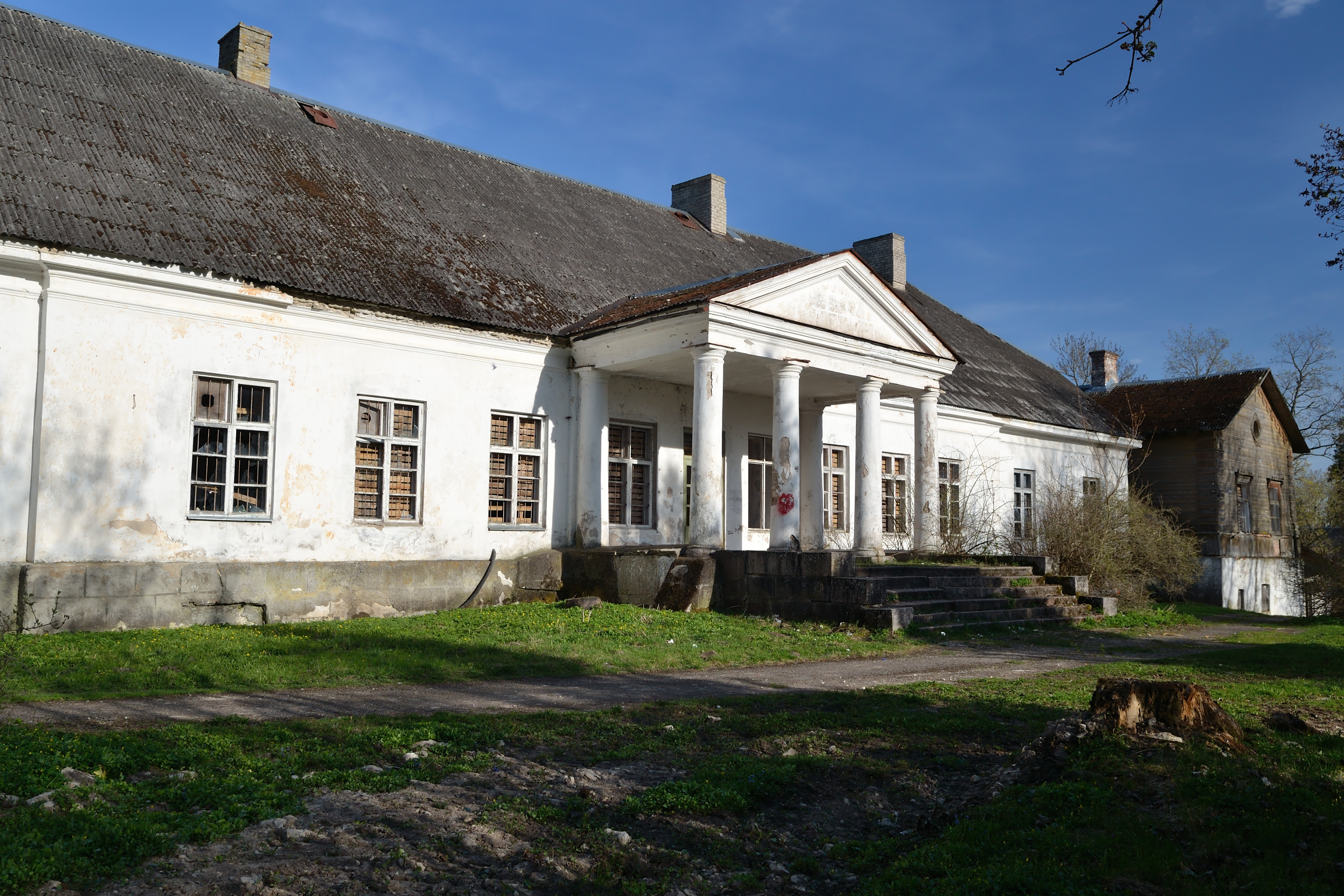 Käravete manor main building